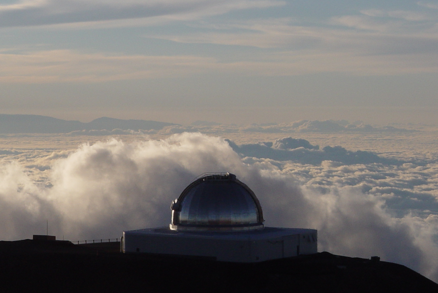 NASA Infrared Telescope Facility.